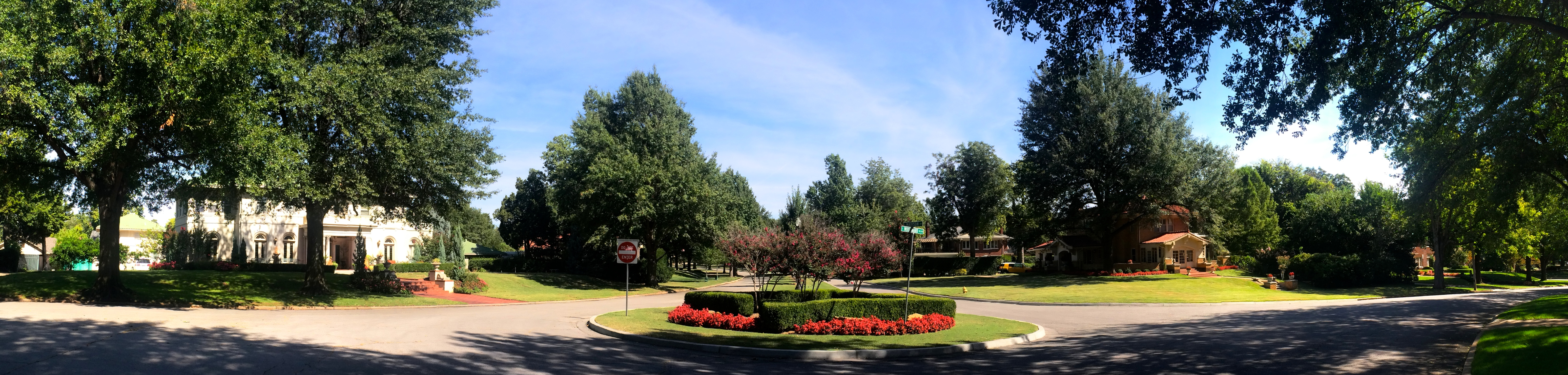 Maple Ridge Historic Residential District, Roughly bounded by Hazel Boulevard, S. Peoria Ave., 14th St., and Railroad Tulsa